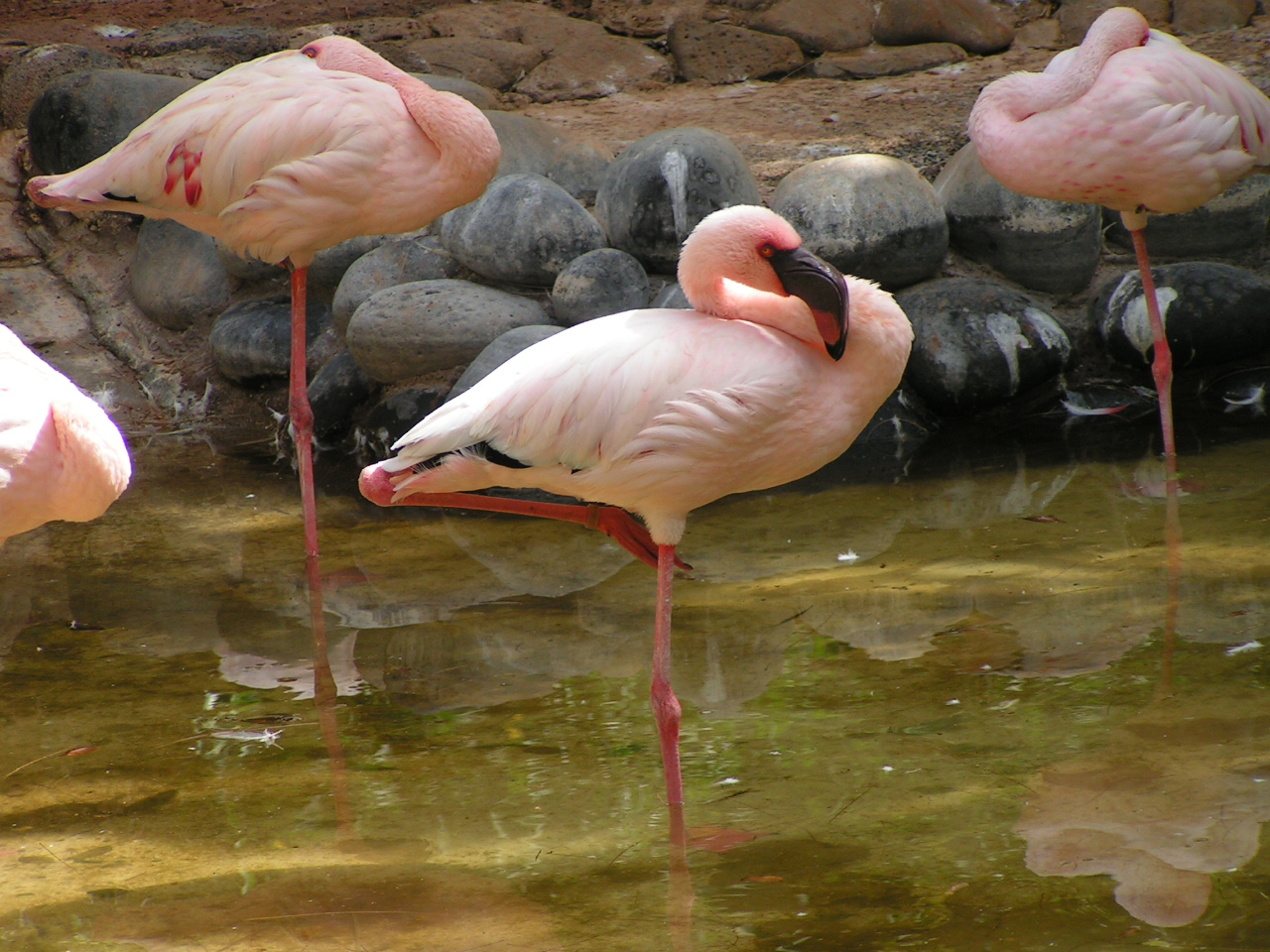 Phoeniconaias minor at the Oasis zoopark, La Lajita, Fuerteventura, Spain